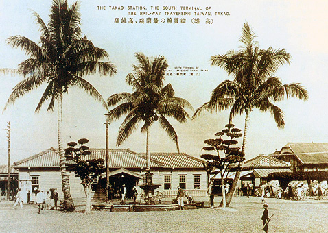 A post card of Takao Railway Station(Kaohsiung Port Station), Taiwan, Japan (Japanese period of Taiwan)